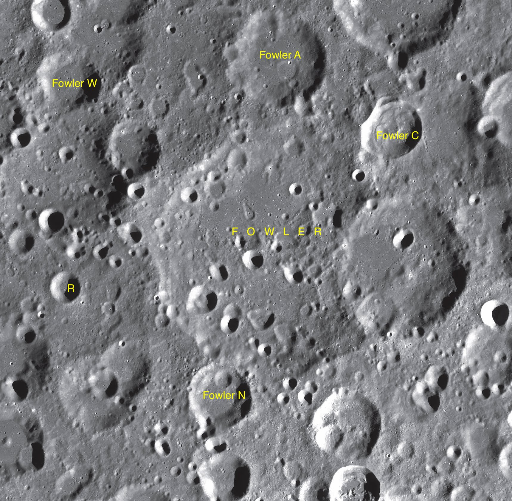 Part of the chart LAC-34 used for the presentation